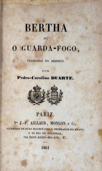 Title page